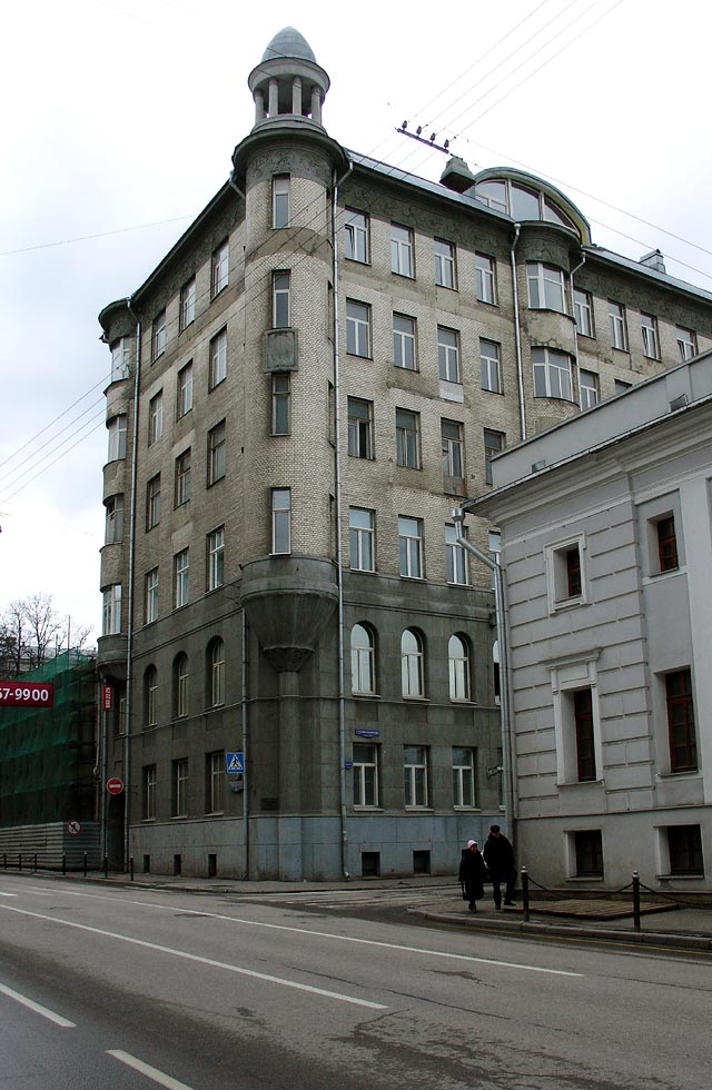 L. V. Shamshina House of 1910-1911 (Architects: F. O. Shekhtel & I. S. Blagoveshchensky) at the corner of Starovagankovsky Sidestreet and Znamenka Street, Moscow, Russia